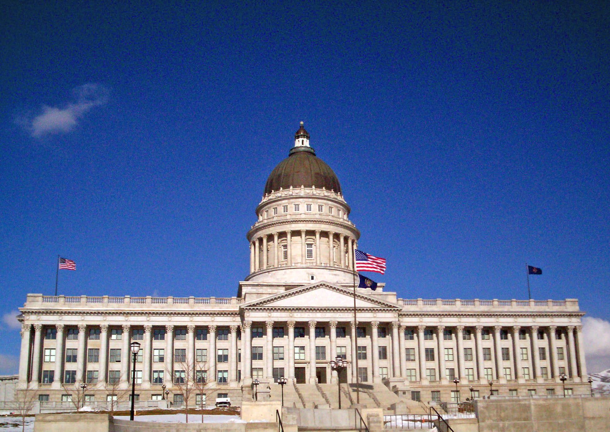 Utah State Capitol 2008